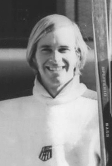 1976 Press Photo Winning US Olympic 1600 Relay Team